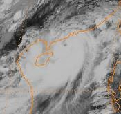 Satellite image of Tess (1985)